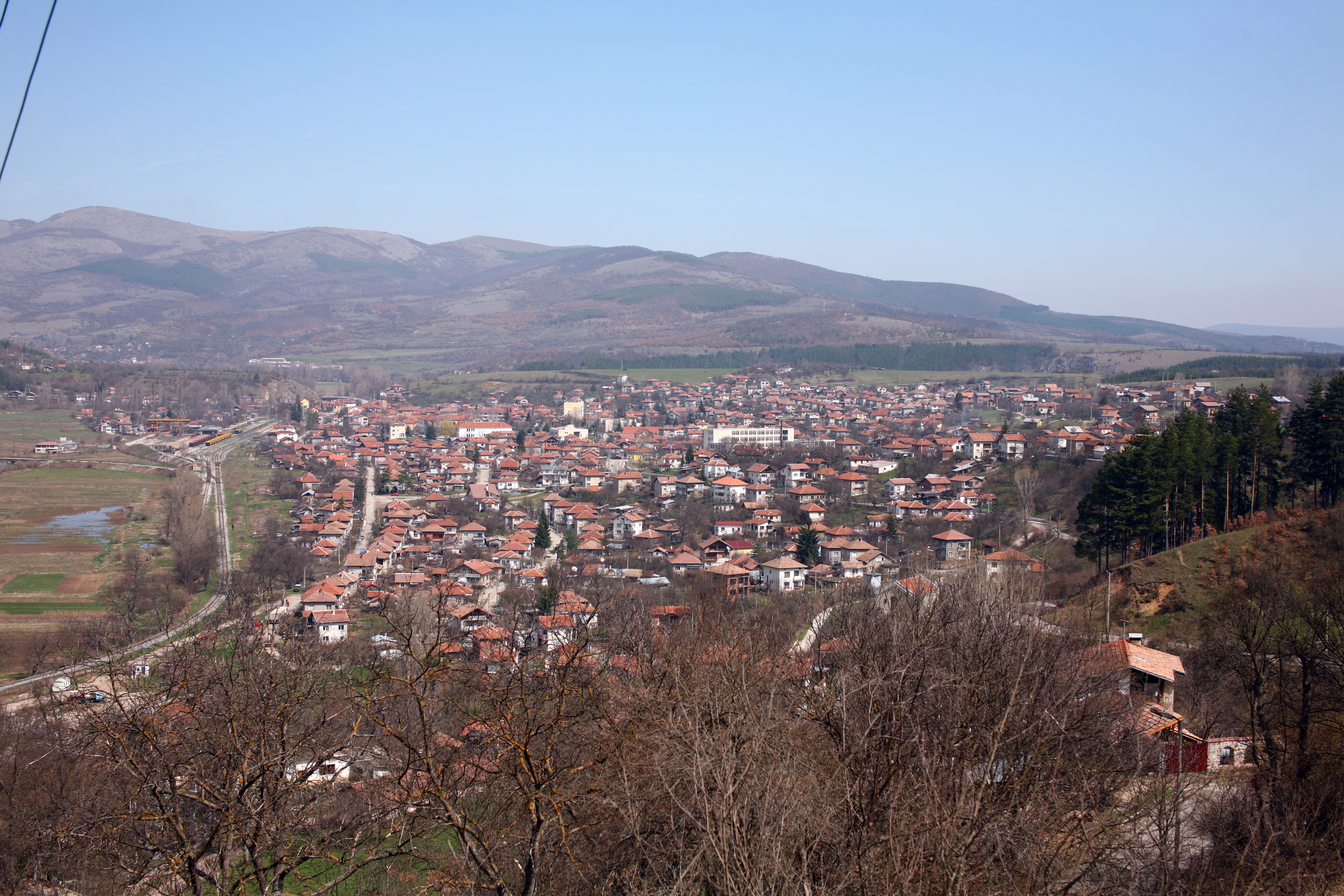 Zemen,Bulgaria